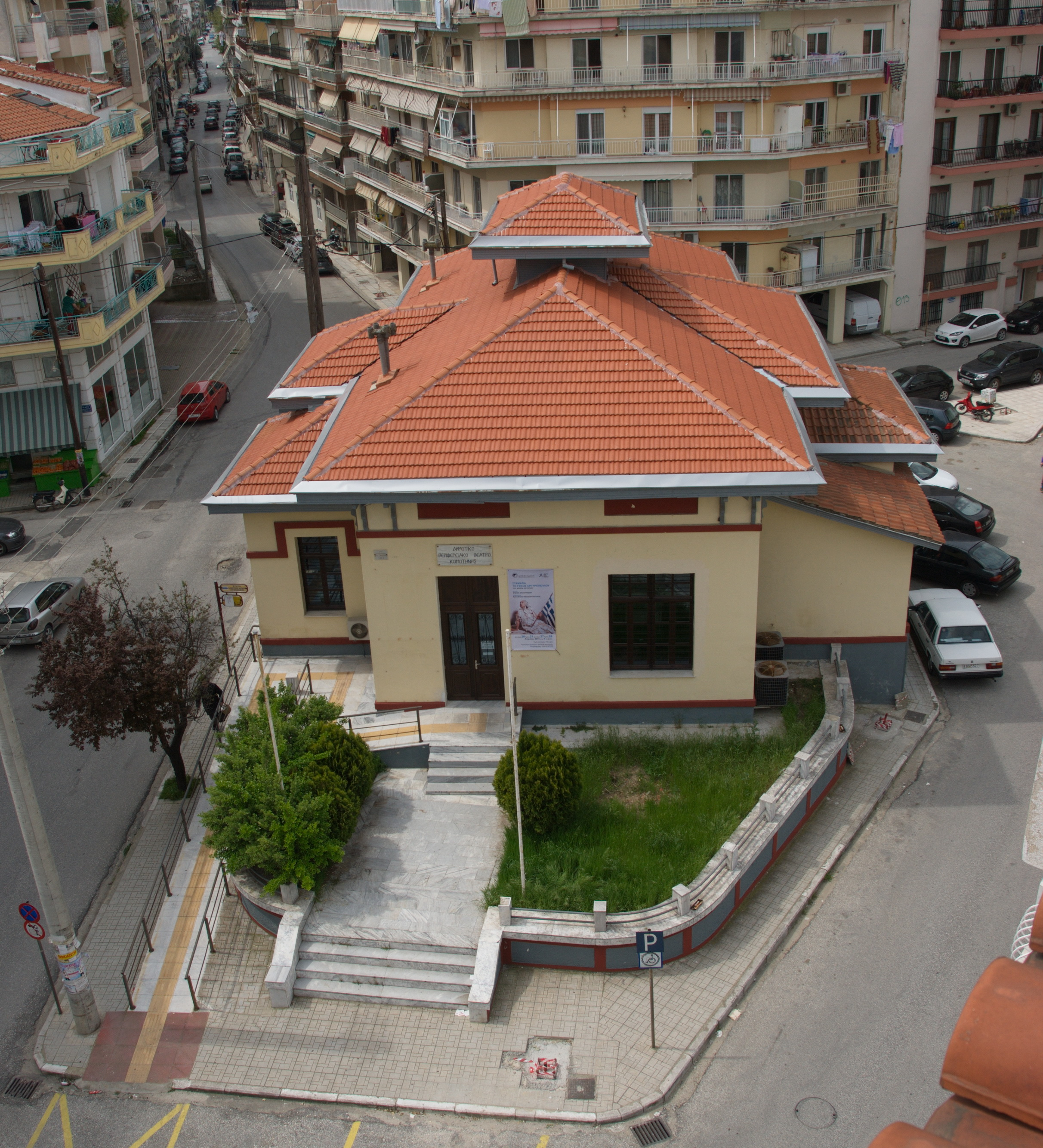 Building of Municipal and Regional Theatre of Komotini